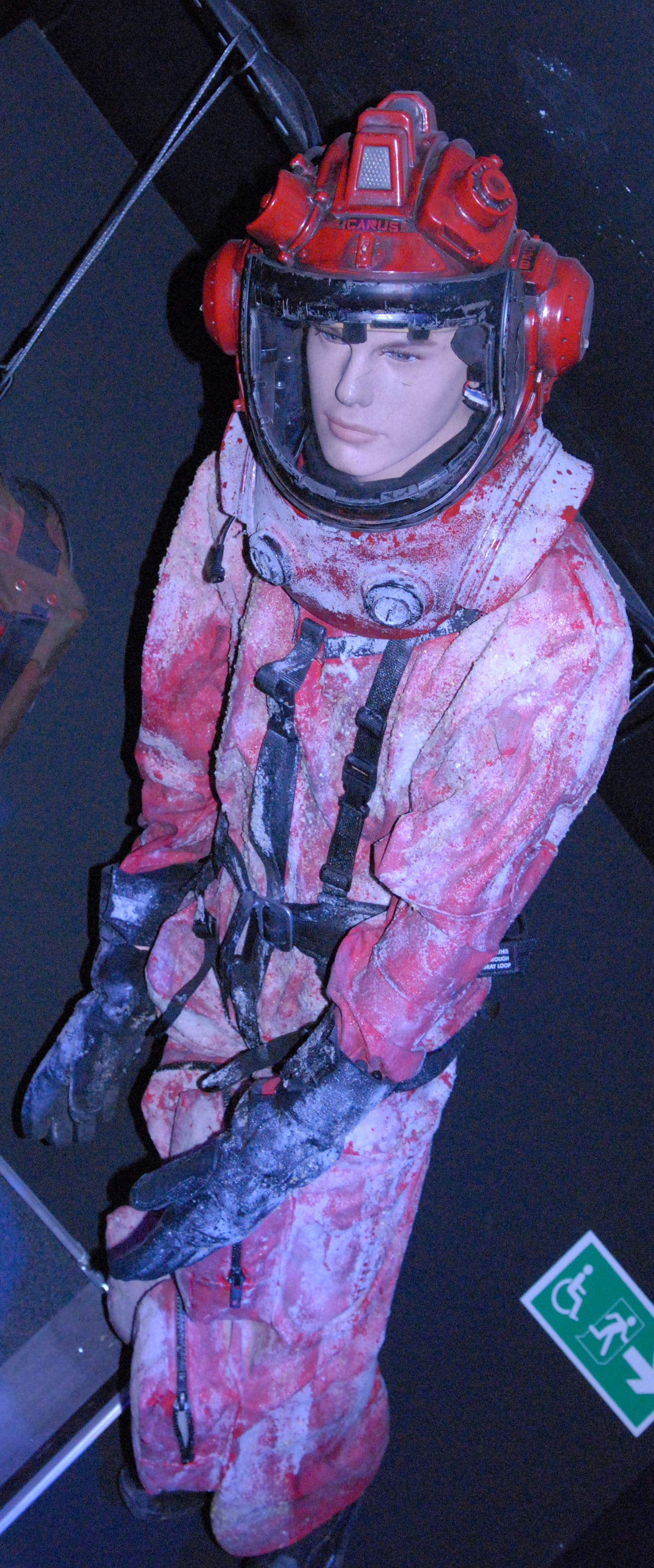 DSC_0107_2 Doctor Who Experience